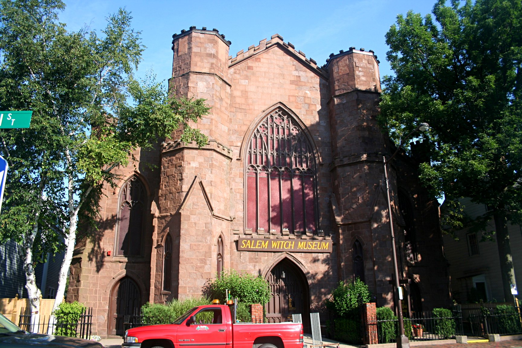 Photograph of the Salem Witch Museum in Salem, Massachusetts, United States of America taken by Rolf Müller.